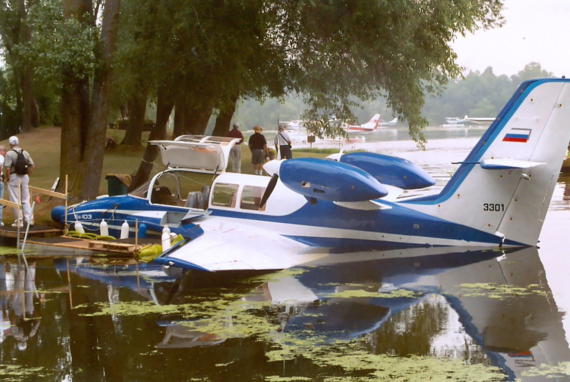 Be103 in water